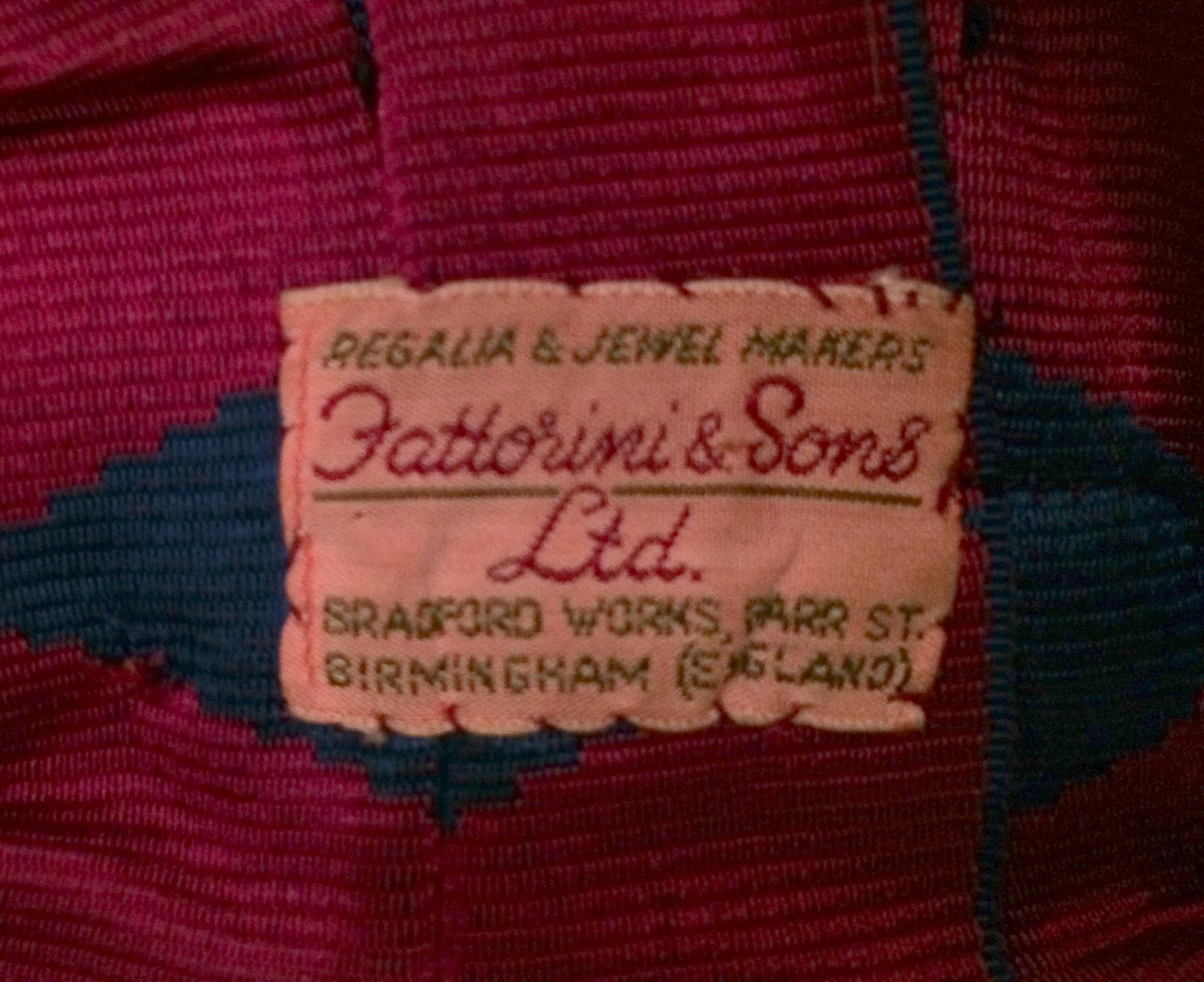 An example of the "signature-style" label attached to masonic regalia manufactured by Fattorini and Sons for much of the twentieth century.